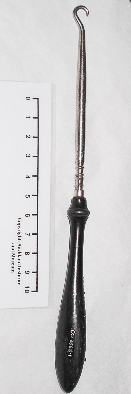 Buttonhook; ebony handled with silver embossed pattern and silver shafted hook